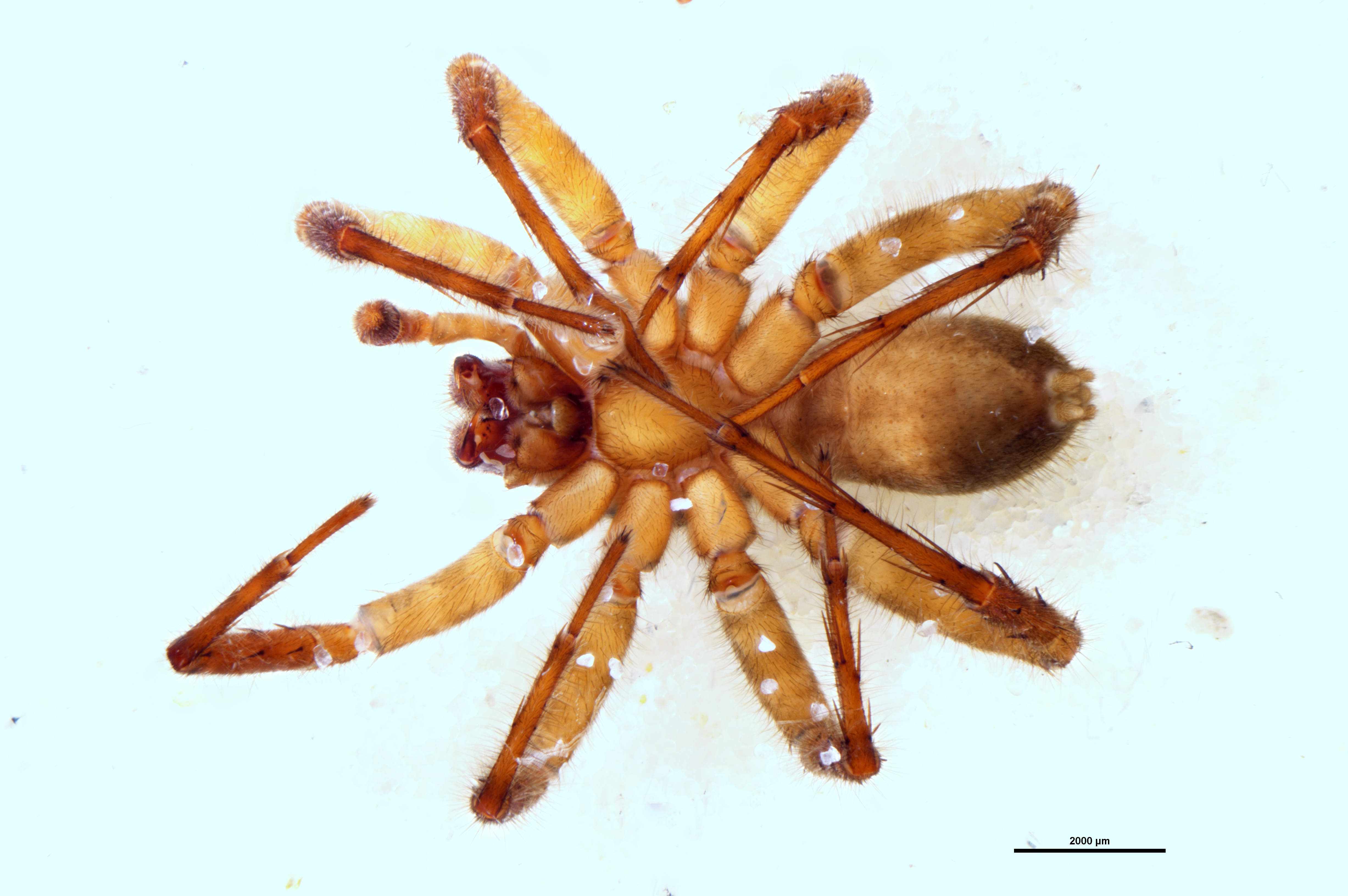 Holotype of "Anoteropsis cantuaria" wolf spider, collected by Cor Vink, Lincoln University, at Prices Valley, Banks Peninsula, in 1994.